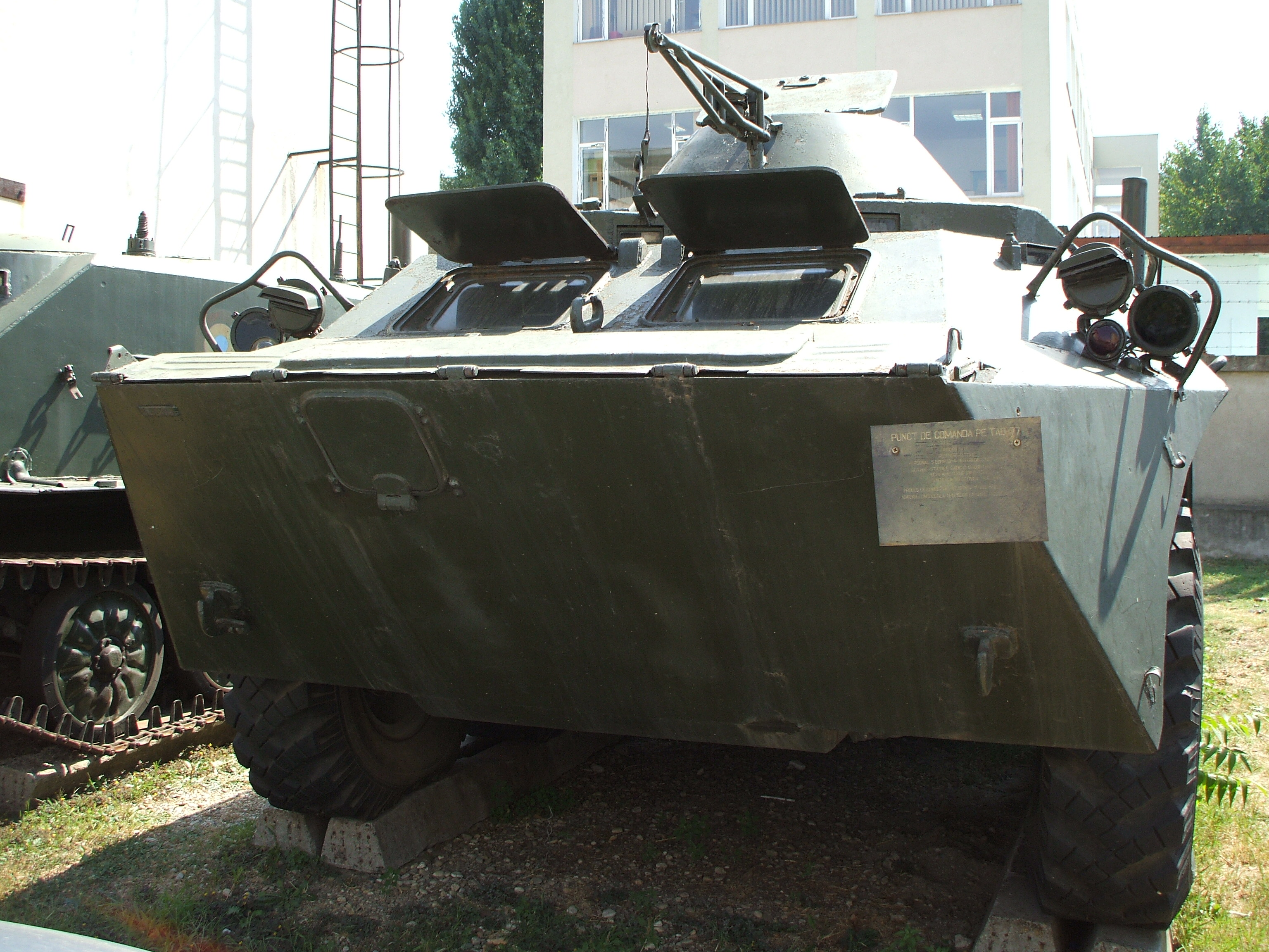 A TAB-77 PCOMA on display at "King Ferdinand" National Military Museum in Bucharest.